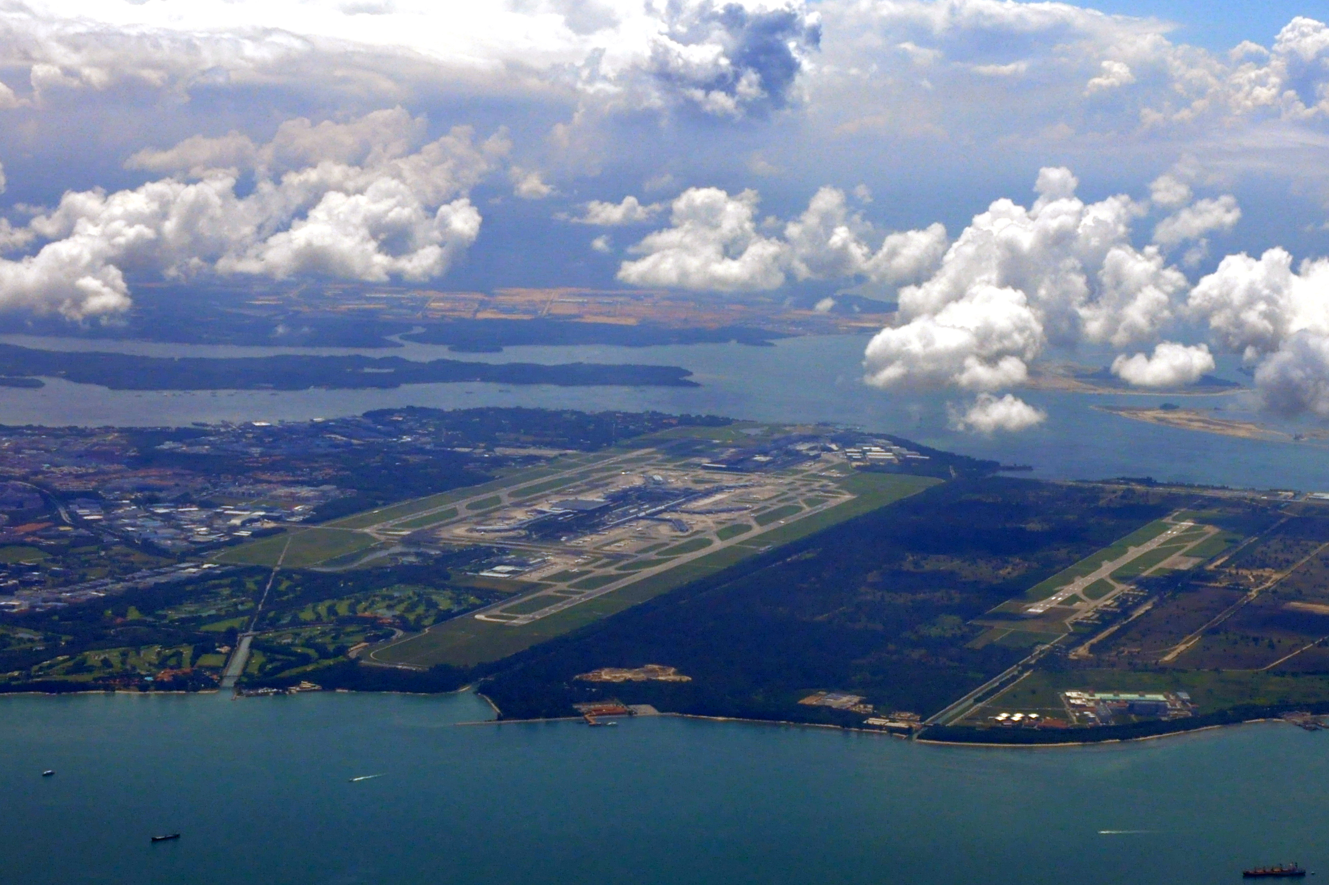 Aerial view of Singapore Changi Airport and runways (centre), with Changi Air Base (East) and its single runway on the right.